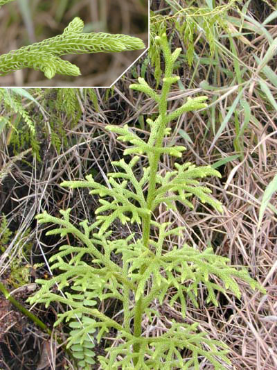 Photo of Lycopodiella cernua – Palhinhaea cernua in the Pteridophyte Phylogeny Group classification of 2016 (PPG I)